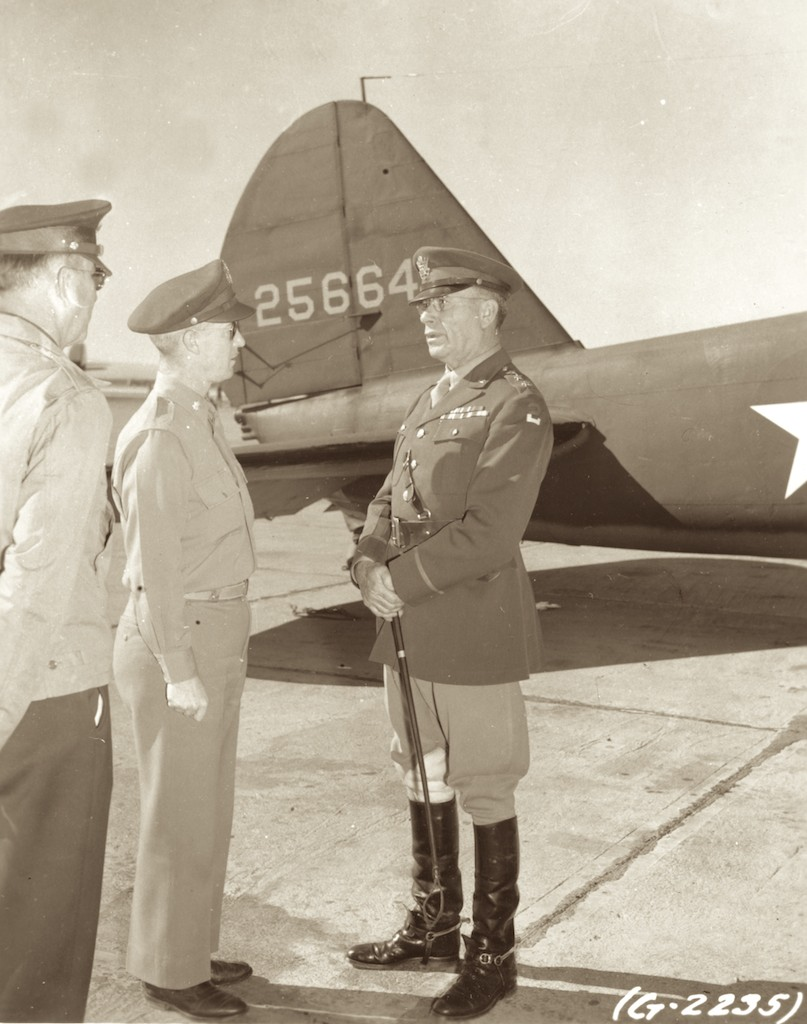 Original 4x6 captioned on back by photographer in 1944 as: "General (Yoo-hoo) Lear. He made some boys yoo-hoo for an hour after he caught them yoo-hooing at some girls-hence his nickname."